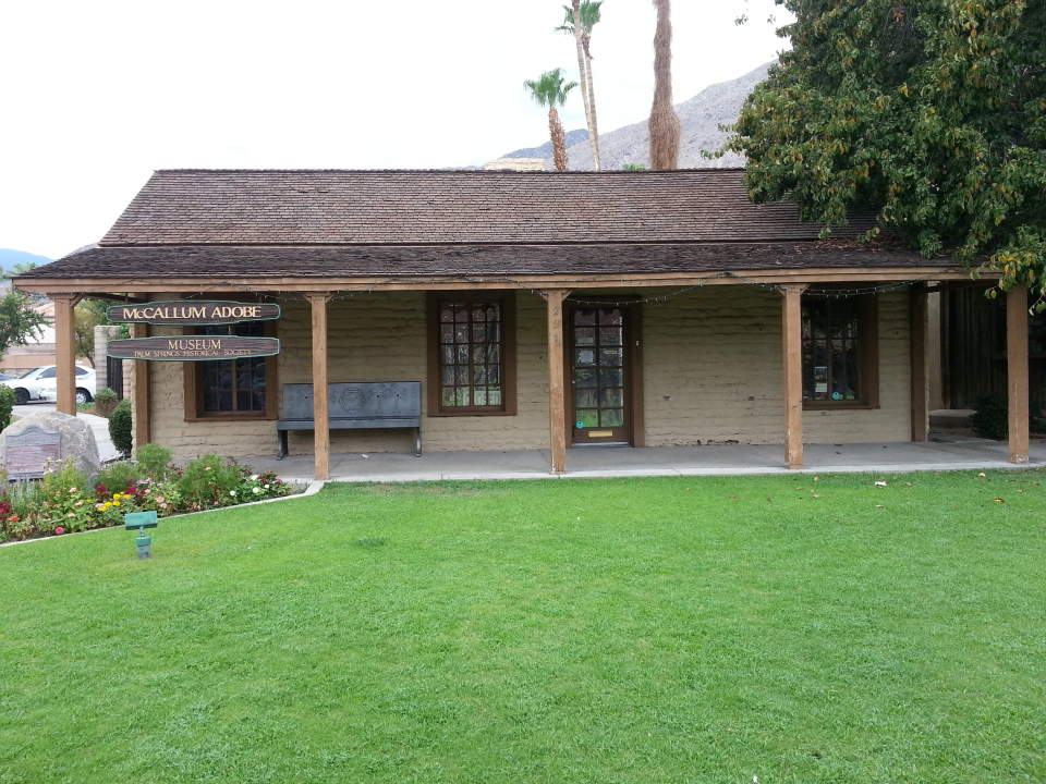 McCallum Abode, next to the Cornelia White House in Palm Springs, California